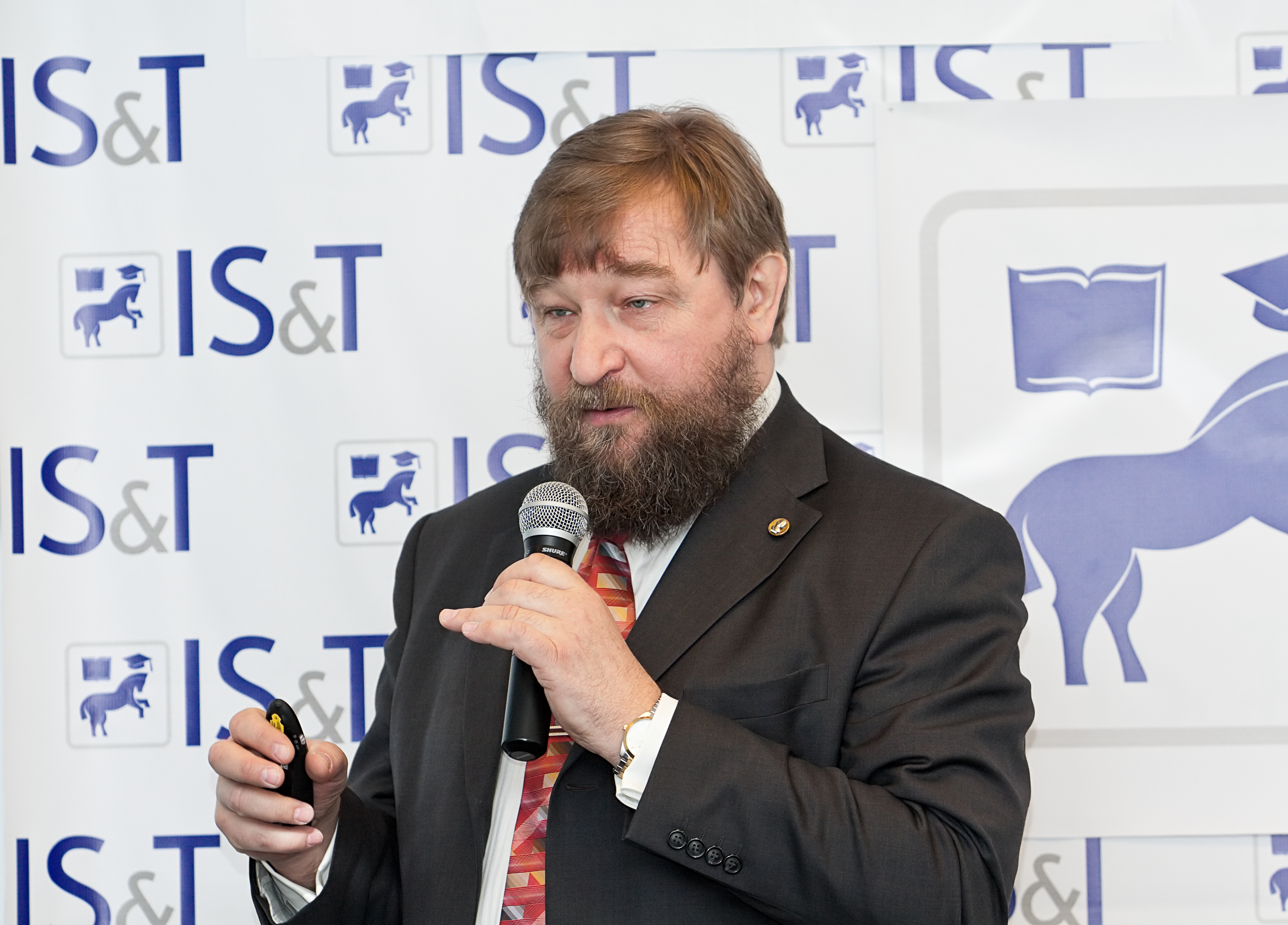 Sergey Mikhailovich Abramov (25.03.1957) — Russian mathematician, Professor, Doctor of Physico-Mathematical Sciences (1995), corresponding member of the Russian Academy of Sciences for the Department of Information Technology and Computer Systems (25.05.2006), director of the Program Systems Institute named after A. K. Ailamazyan (2005), rector of the University of Pereslavl named after A. K. Ailamazyan (2003).